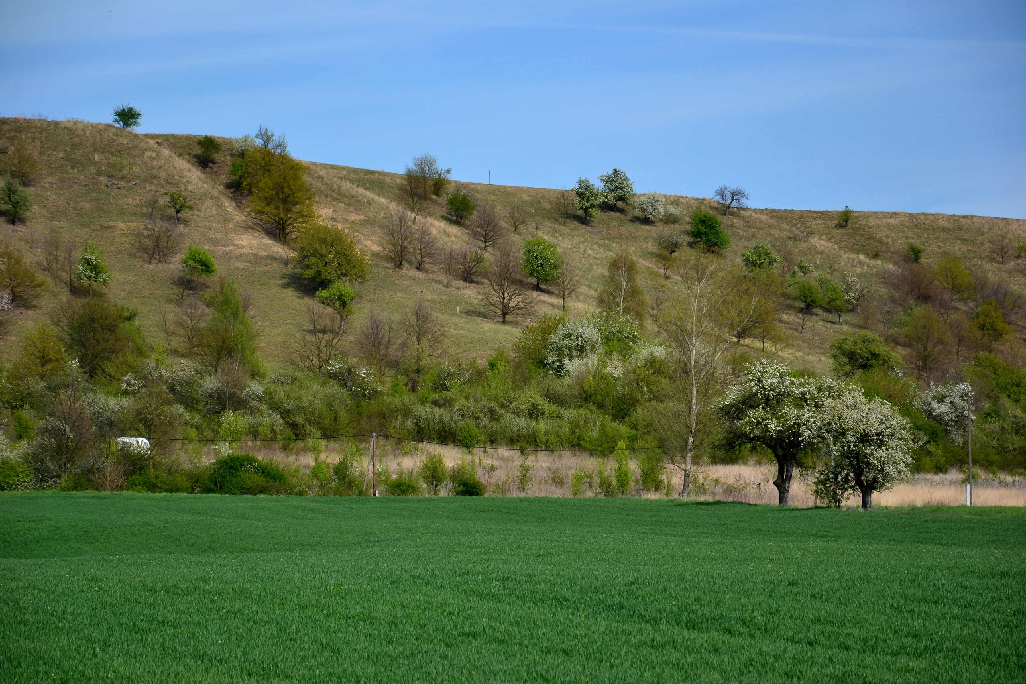 Natural monument Stroupeč in Louny District, Czech republic